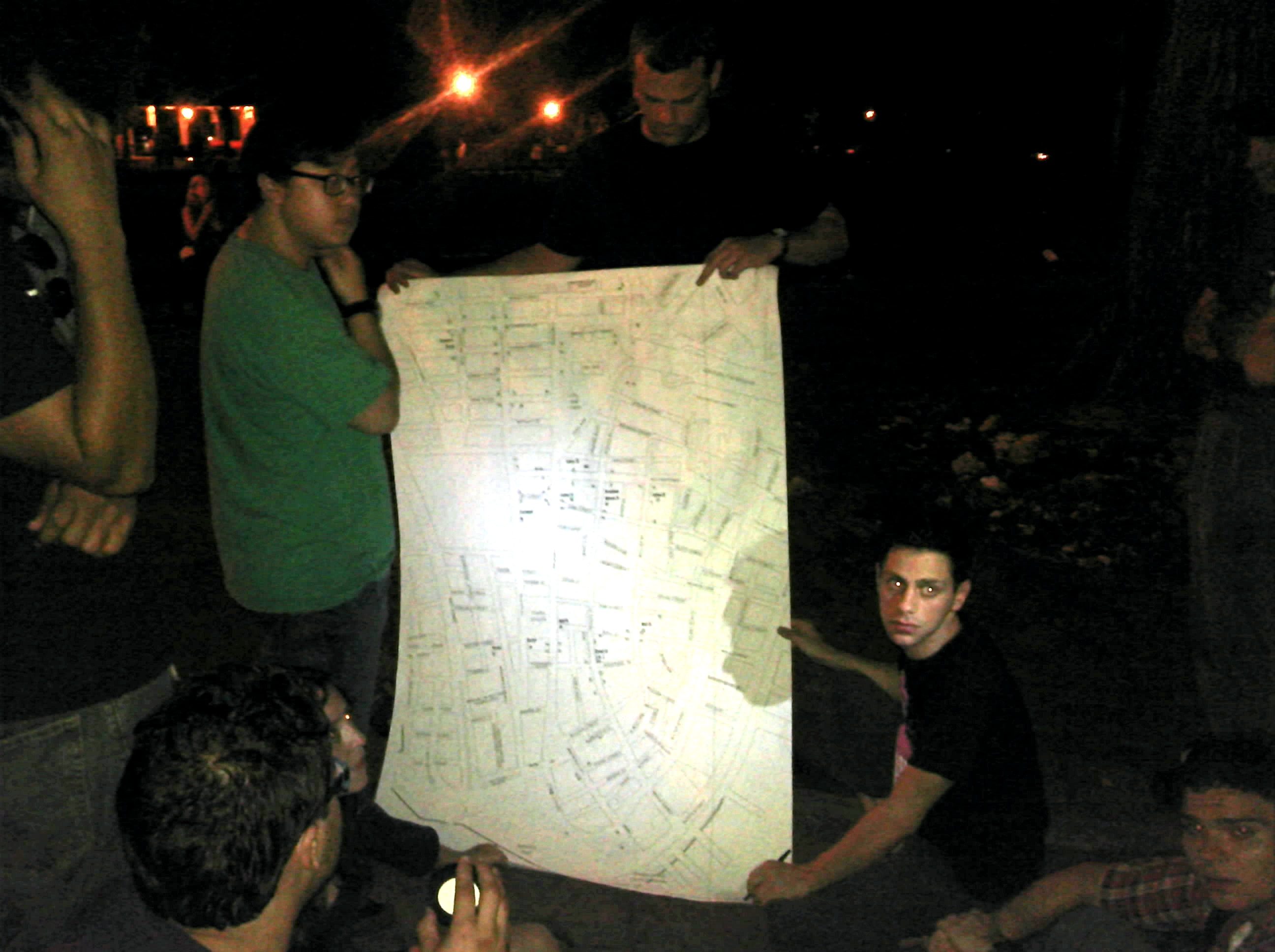 Occupy Wall Street general assembly meeting in Tompkins Square Park planning the September 17th strategy.